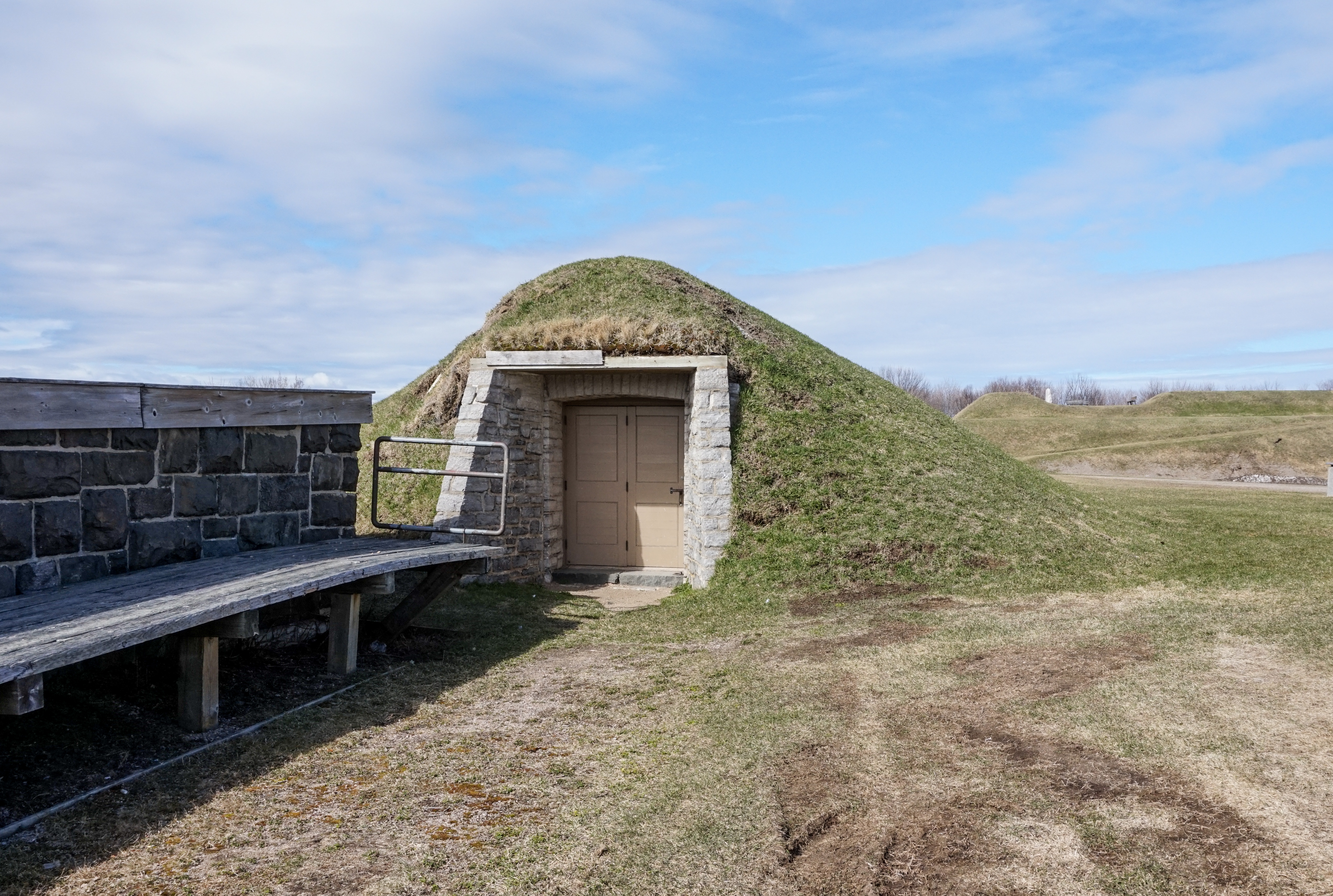 Entrance of the front caponier in Fort No. 1, Lévis, Quebec, Canada